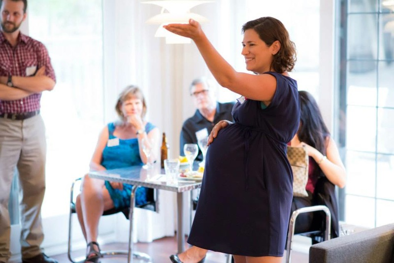 Lisa Bender campaigning in 2013